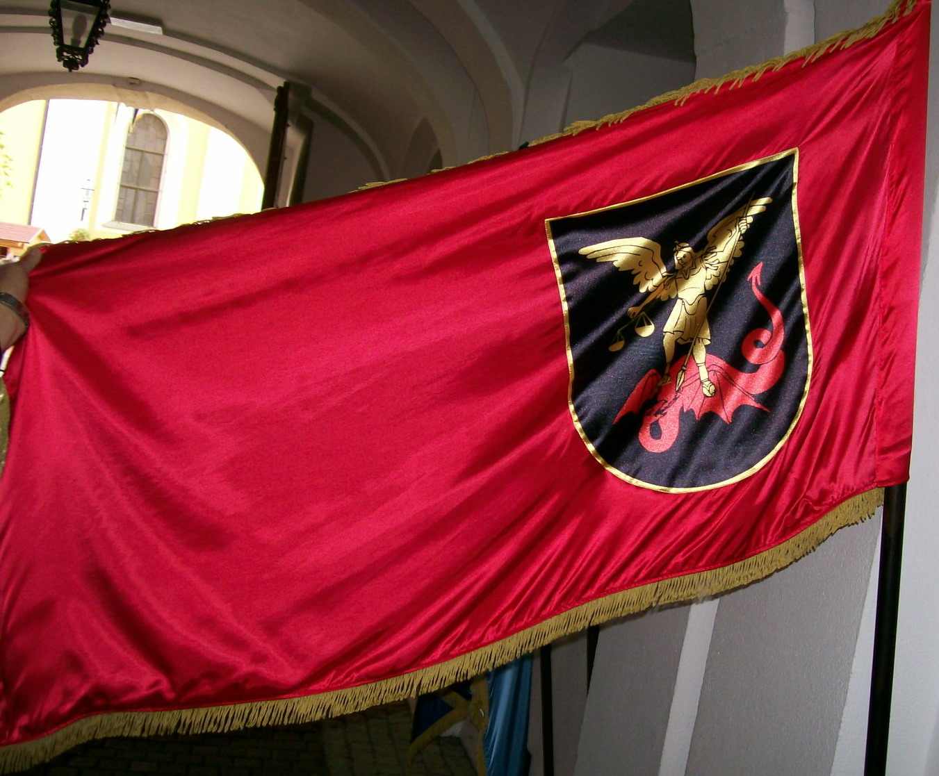 Flag of Municipality of Sračinec, Varaždin County, Croatia ( reverse side of the flag)